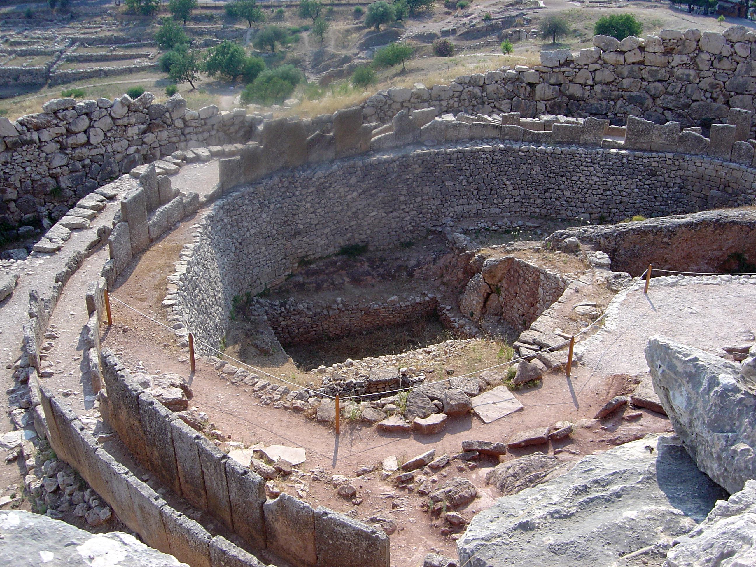 Ruins in Mycenae.